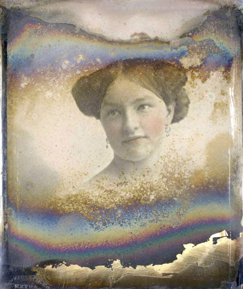 Accession Number: 1974:0193:0684 Maker: Southworth & Hawes Title: Unidentified Woman Date: ca. 1852 Medium: daguerreotype with applied color Dimensions: sixth plate; 8.2 x 7.0 cm. George Eastman House Collection General information about the George Eastman House Photography Collection is available at For information on obtaining reproductions go to